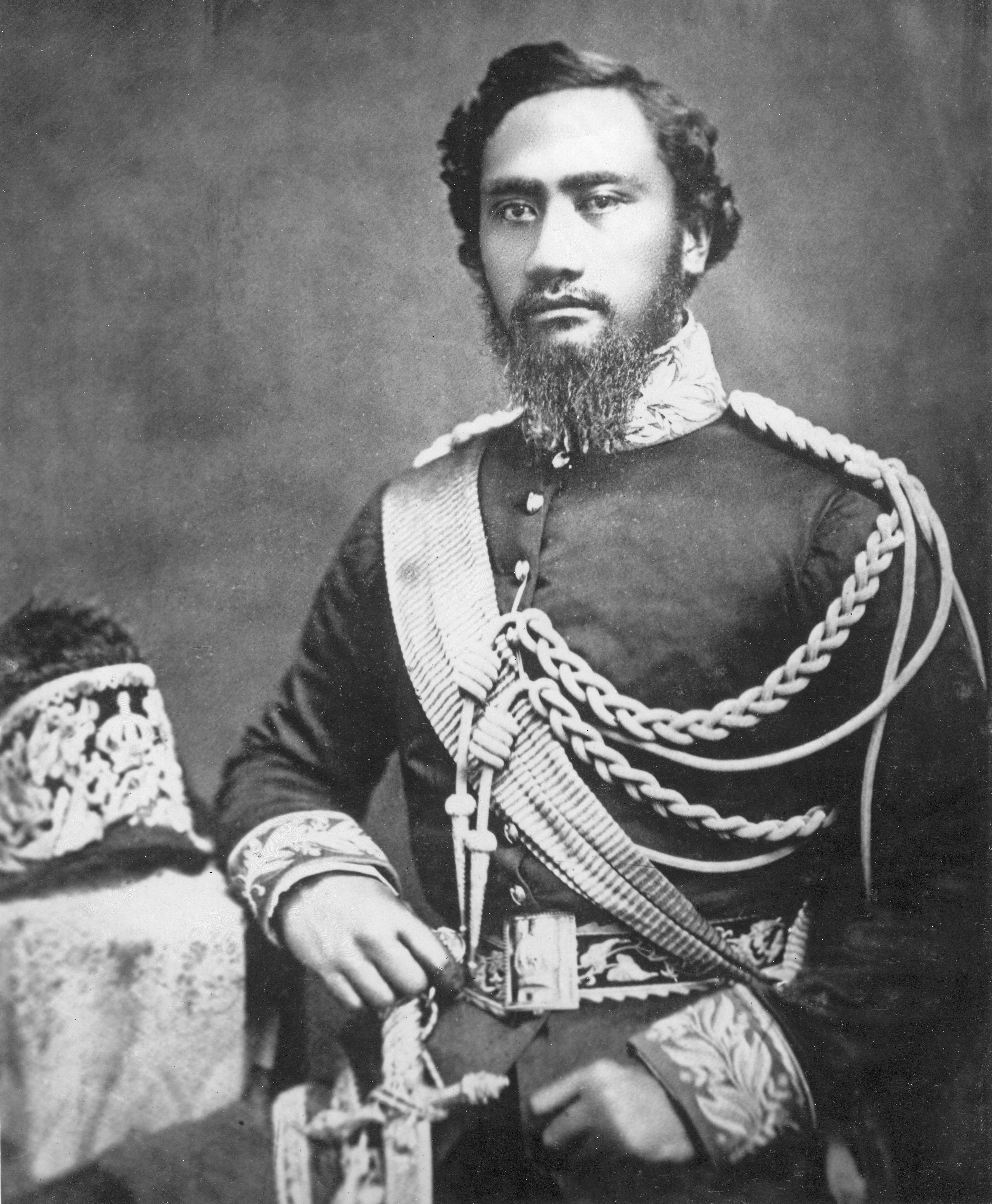 Kamehameha IV, born Alexander ʻIolani Liholiho Keawenui (1834–1863), reigned as the fourth king of the Kingdom of Hawaii from January 11, 1855 to November 30, 1863.